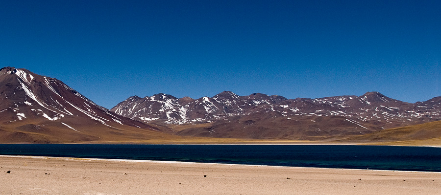 Part of the "Cordón de Puntas Negras" volcanic group seen from Laguna Miscanti. The Puntas Negras complex contains a large number of vents and cones, which cover an area of roughly 500 km².